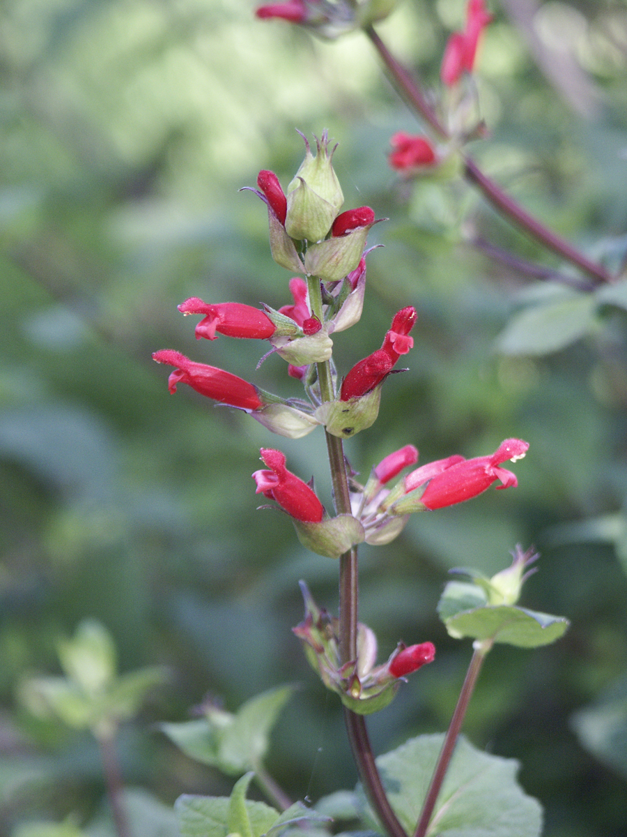 Lakeside Park, Oakland, CA